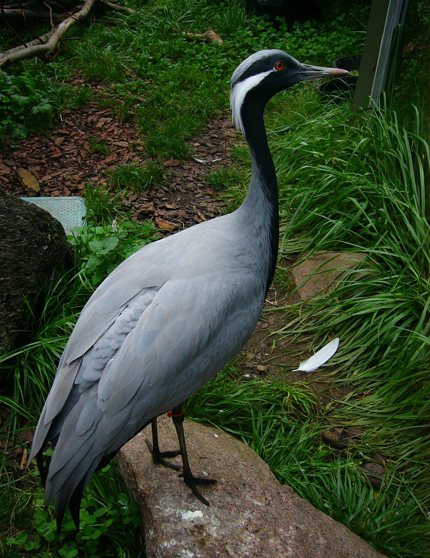 Damoiselle Crane in Toronto Zoo. Photographed by User:Menchi himself